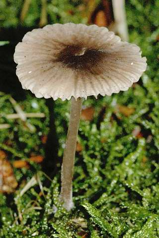 Mycena purpureofusca from Commanster, Belgian High Ardennes .